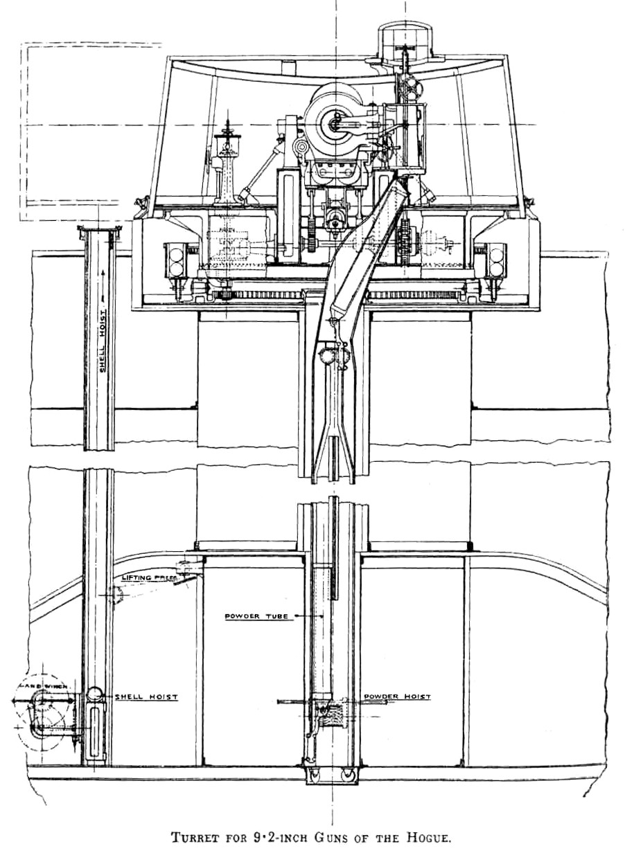 Diagram showing rear elevation of BL 9.2 inch Mk X gun turret for British Cressy class armoured cruisers.